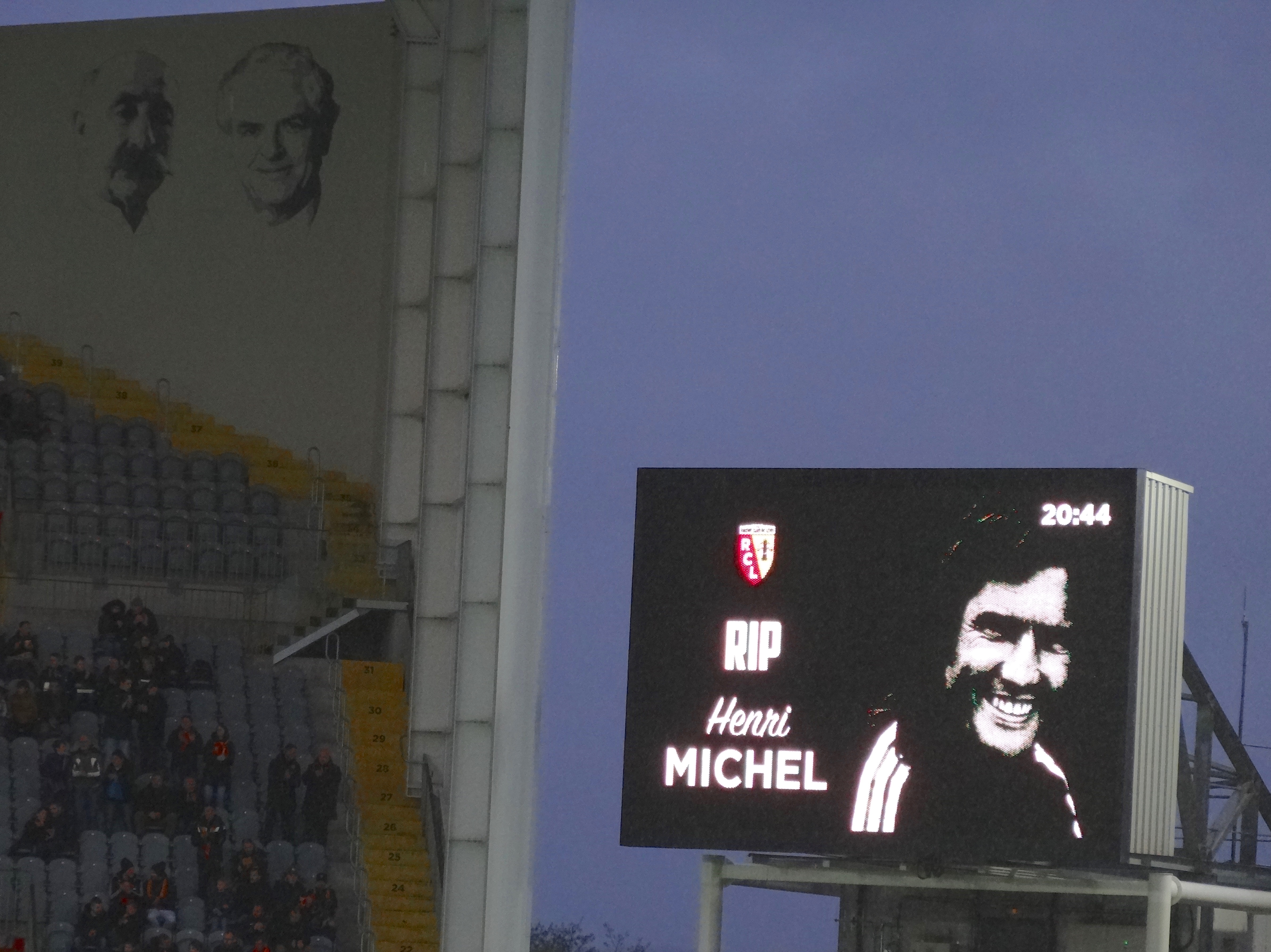 Tribute to Henri Michel (from Lens)